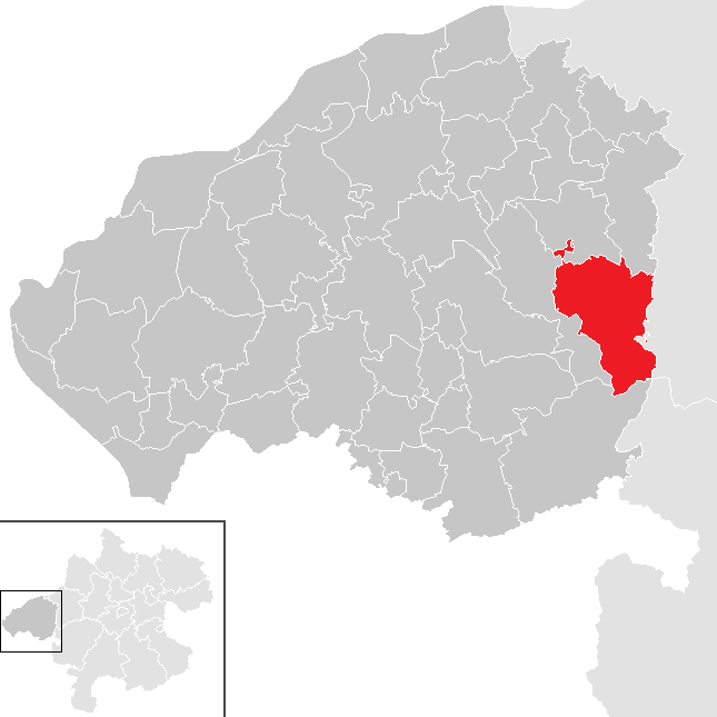 district Braunau am Inn